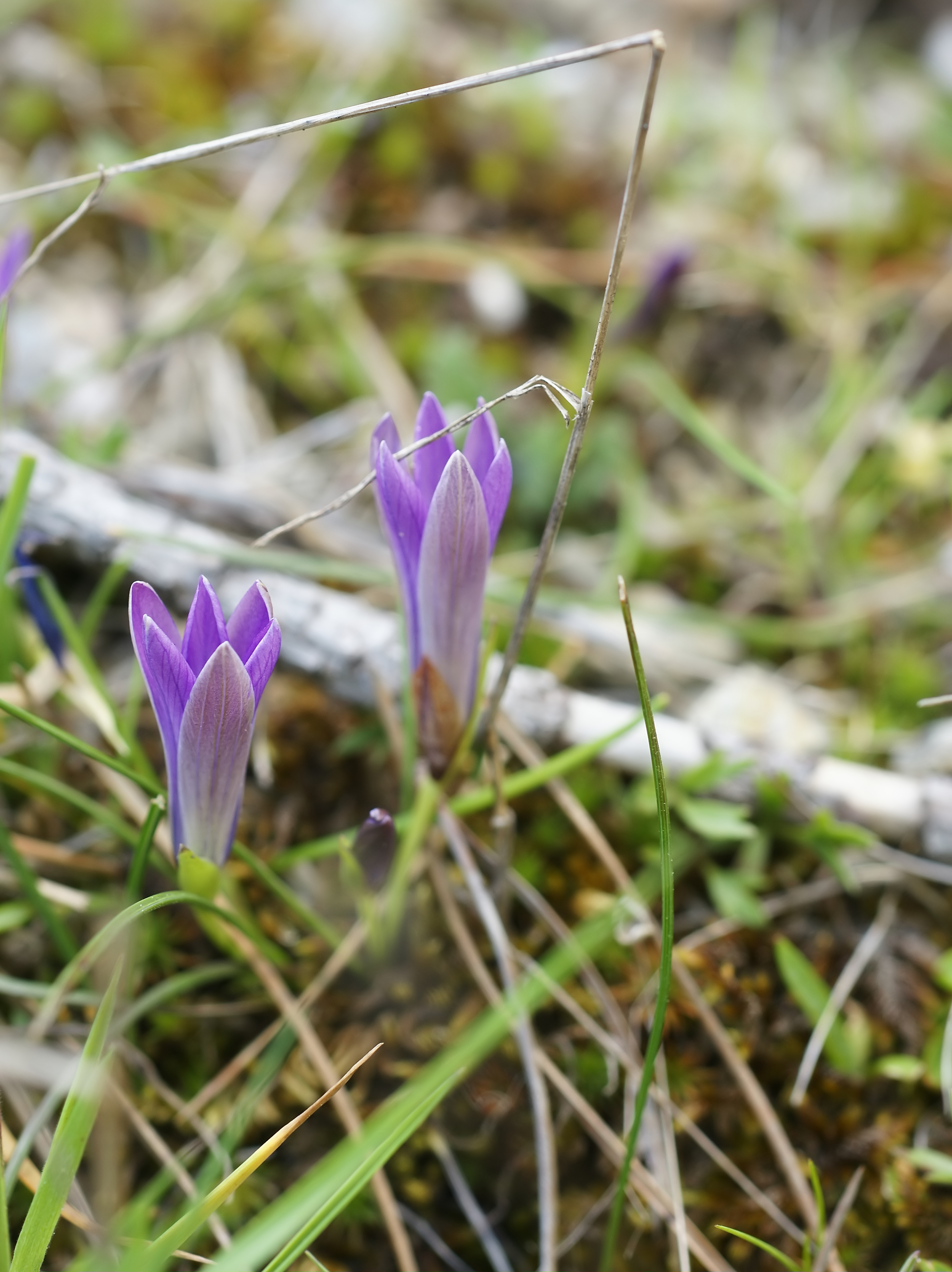 Near Tonara, Sardinia, Italy.